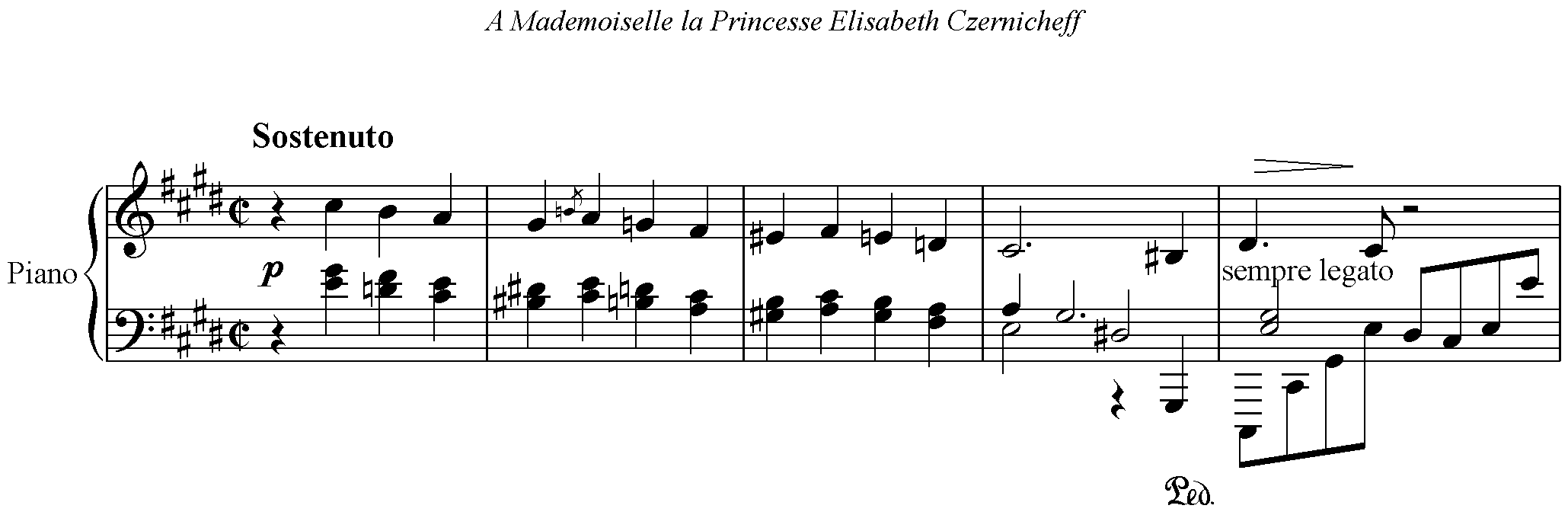 5 first bars of Chopins prelude 25 op. 45